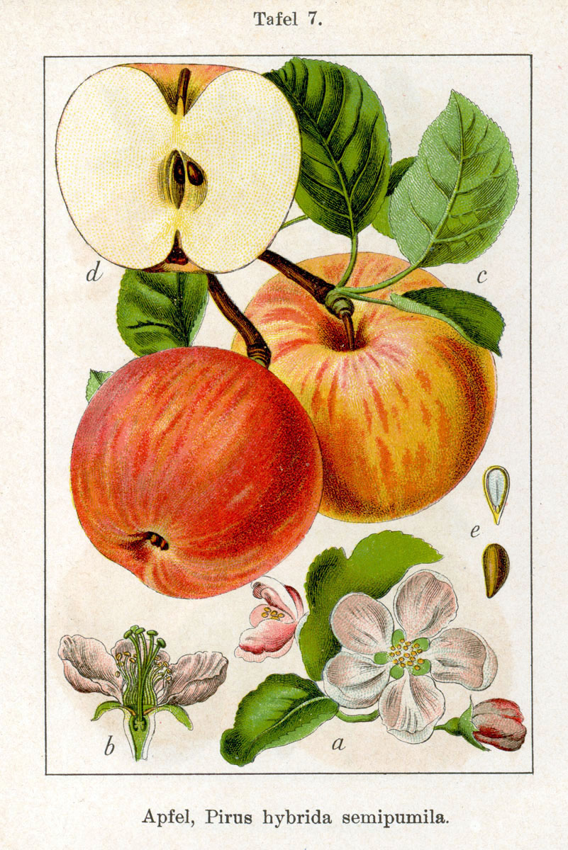 Malus pumila P. Mill., syn. Malus domestica (Borkh.) Borkh. Original Description Apfel, Pirus hybrida semipumila